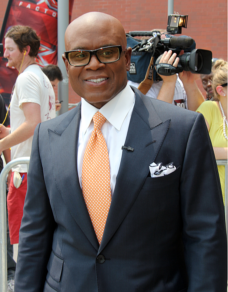 L.A. Reid photo courtesy Alison Martin of .